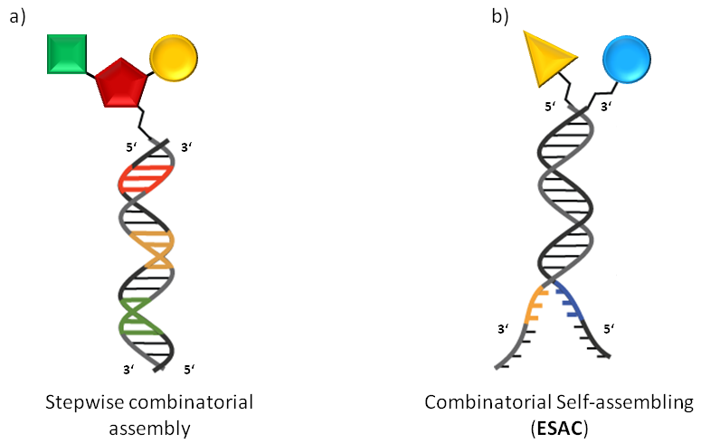 DNA encoded chemical library formats